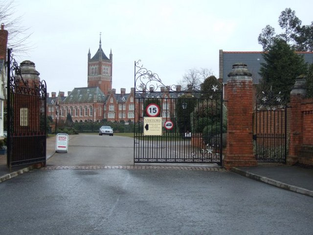 Virginia Park. This grand Victorian building was the Holloway Sanatorium, but it closed in 1981. After a period of neglect and disrepair, it was converted into a large private housing estate in about 1996.